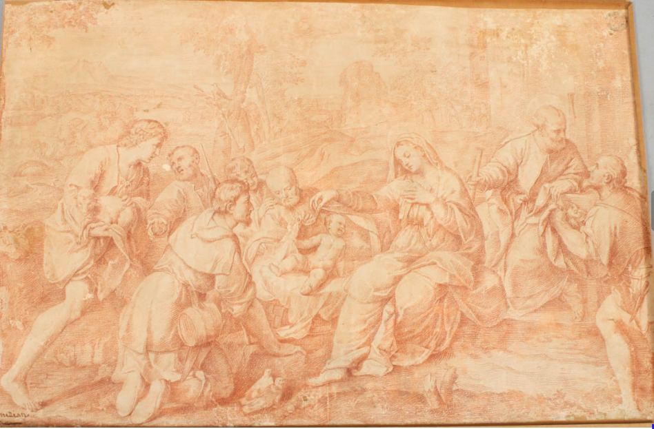 Raphael Santi (after?) Adoration of the Shepherds, 1508, once part of the collection of the Ubaldini family i Urbino. Also believed to be in the possession of the Lambertini family of Bologna. Specifically Prospero Lambertini, later know as pope Benedict XIV, currently in a private collection.